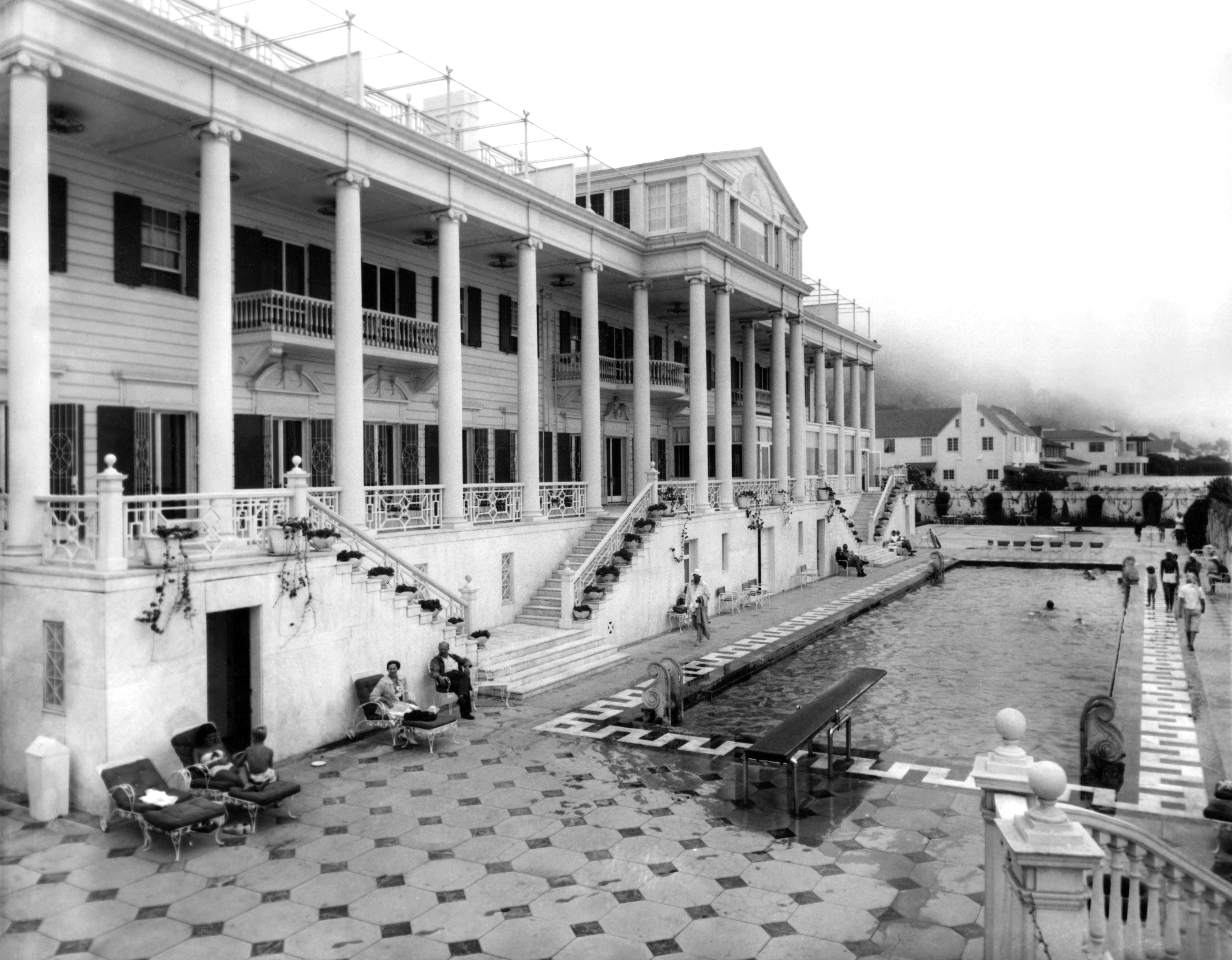 Photograph of Ocean House at Santa Monica Snipe on reverse side reads as follows: (For use Sunday, October 16, with Howard C. Heyn's Santa Monica, Calif., AP-N story on Ocean House) LUXURIOUS BEACH RETREAT View of Ocean House, an exclusive 110-room hotel near Santa Monica, Calif., which at one time was the private beach home of actress Marion Davies. The third story gable in center of building was the sun deck and sitting room of Miss Davies' private suite. The mansion was demolished in 1956. The five-acre estate was sold to the state of California in 1959.